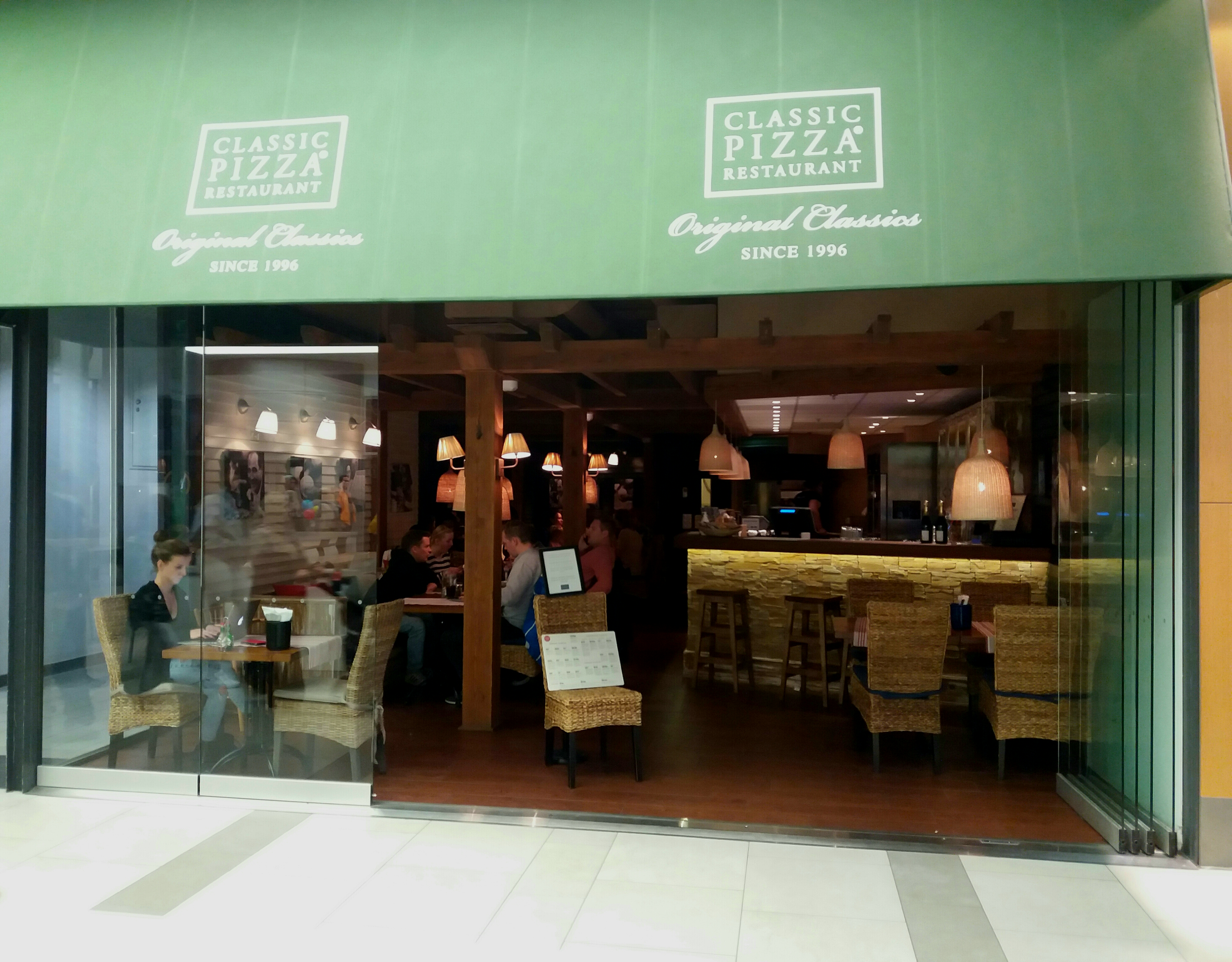 Classic Pizza Restaurant in Itis shopping mall, Helsinki, Finland